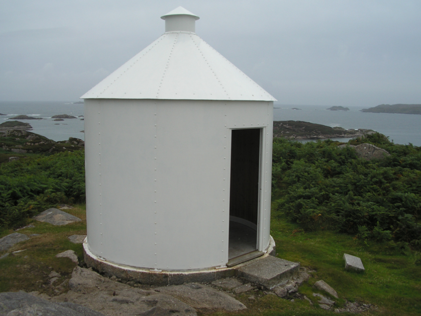 Lighthouse observatory, Erraid near Mull, Scotland